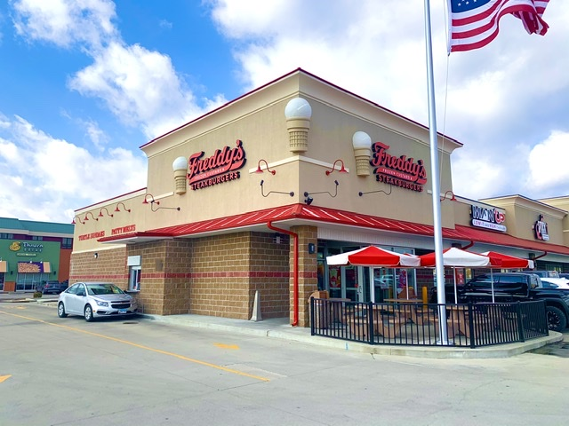 A Freddy’s restaurant, opened in 2019, in Marion, IL